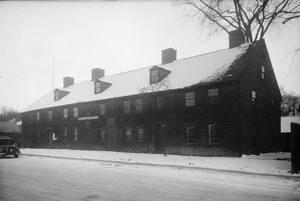 Fort Western, Main Building, Bowman Street, Augusta (Kennebec County, Maine) (cropped)